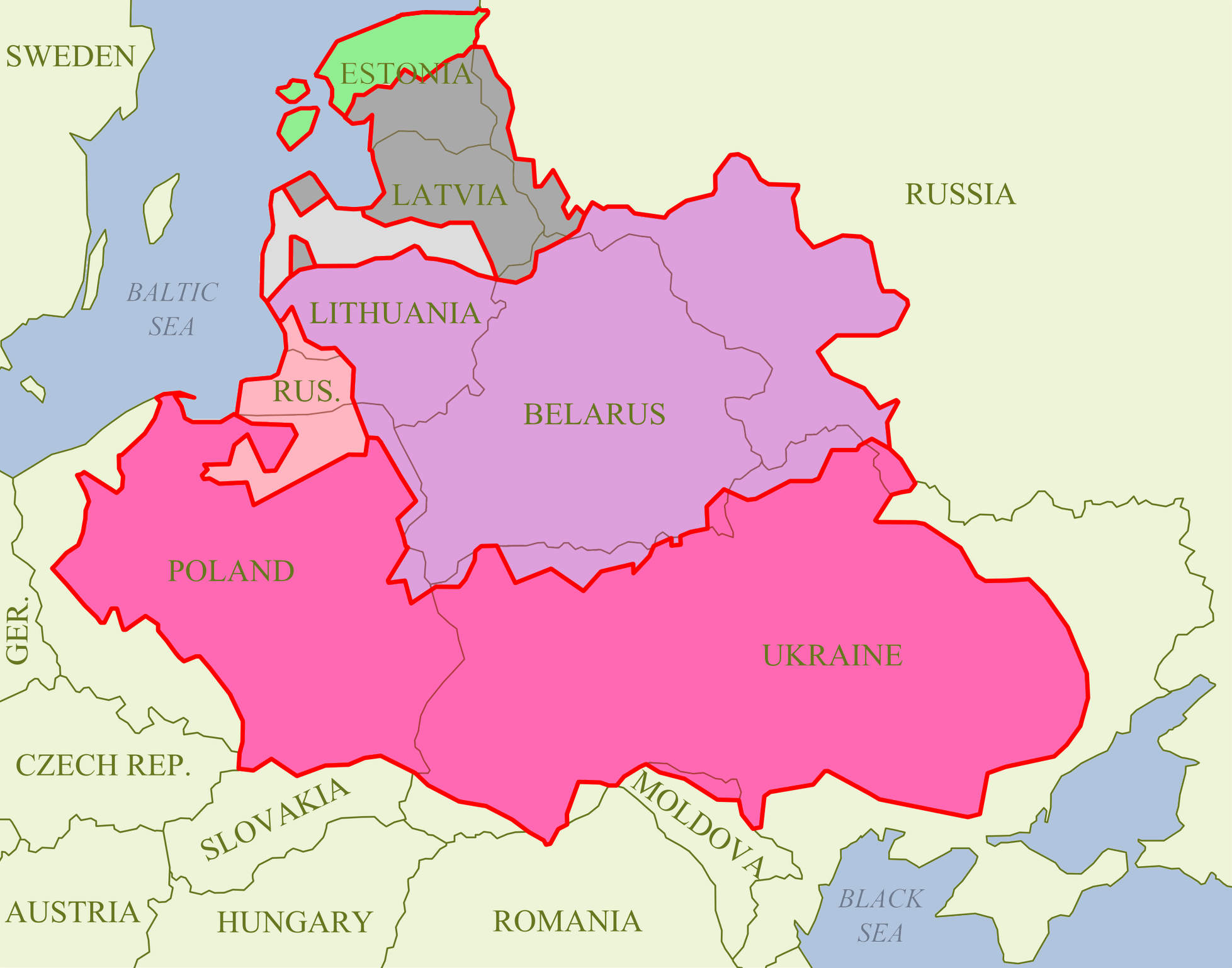 Polish-Lithuanian Commonwealth (1619) compared with today's borders Legend Kingdom of Poland Duchy of Prussia, Polish fief Grand Duchy of Lithuania Duchy of Courland, Lithuanian fief Livonia Swedish and Danish Estonia